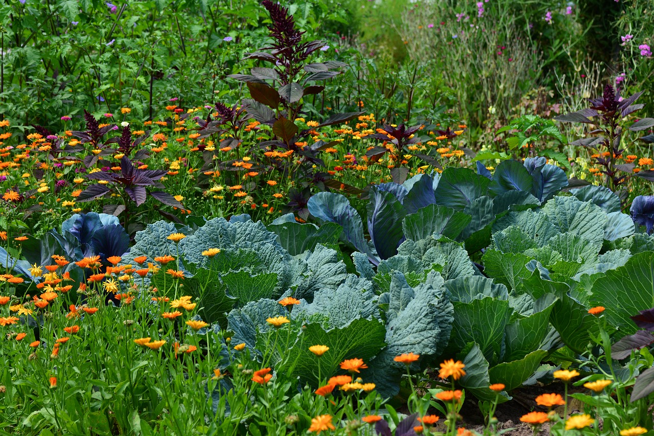 An unstructured garden containing white cabbage and floral varieties